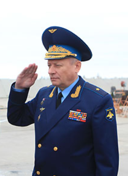 General Zhikharev